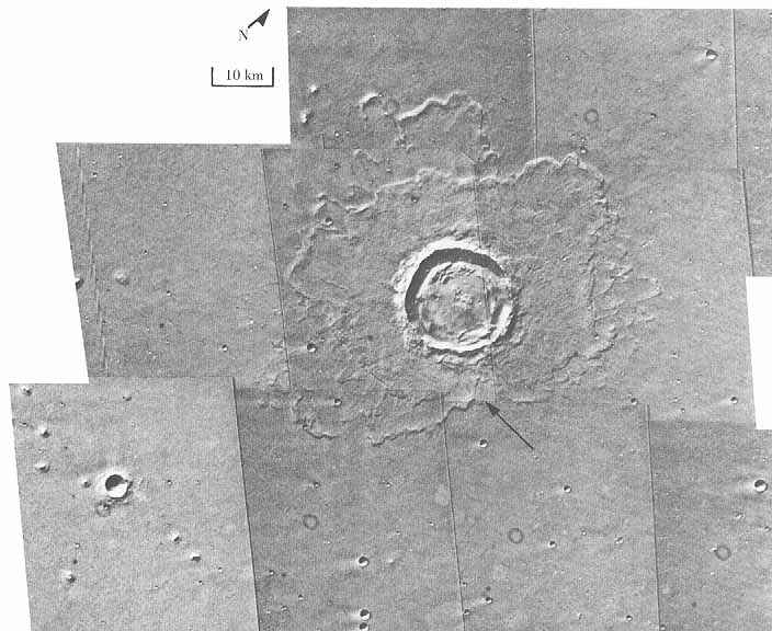 Tarsus, on Mars. This is a figure on p.75 of NASA SP-441: VIKING ORBITER VIEWS OF MARS, which has the following caption: Layered Ejecta around the Crater Tarsus. Each ejecta layer seen here has an outer ridge or escarpment. The upper layer appears to have flowed over and transected the outer margin of the lower layers. At the arrow, ejecta have flowed around a low obstacle. 10A66, 68, 70, 92-98; 23°N, 40°W